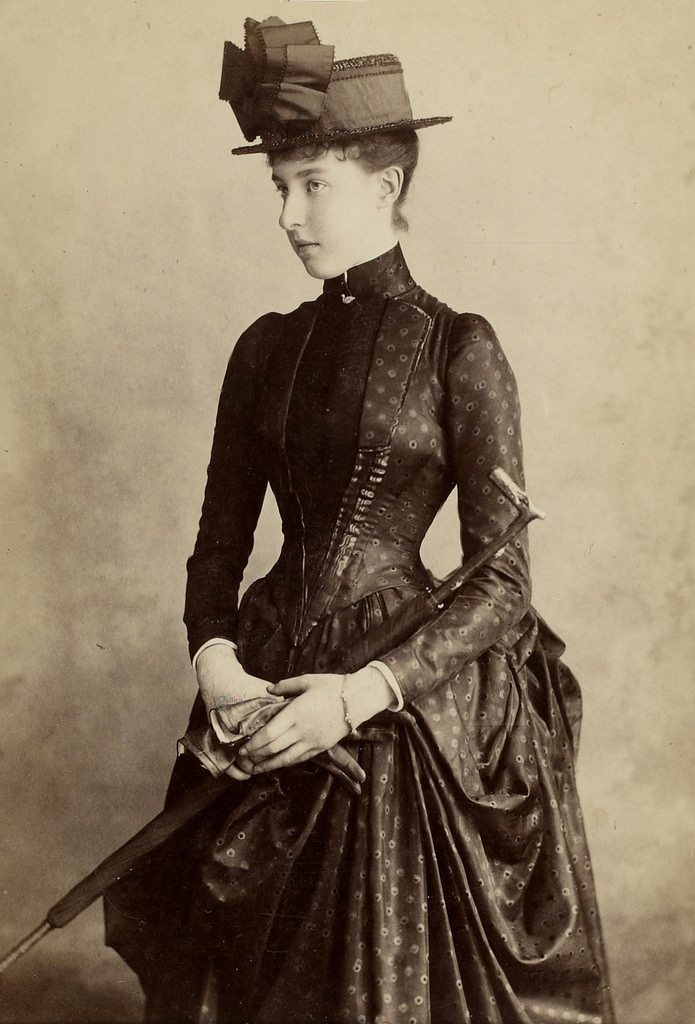 Hélène, Duchess of Aosta (nee Princess d´Orleans)